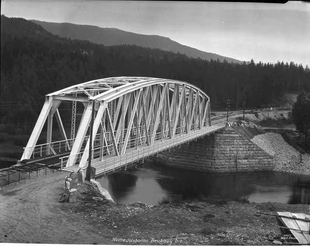 Brohaug Bridge on the Numedal Line in Rollag, Norway